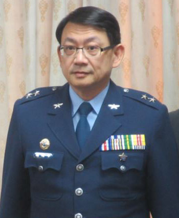 Air Force (ROCAF) Lieutenant General Hu Yan-nien, Deputy Chief of the General Staff for Communications, Electronics and Information